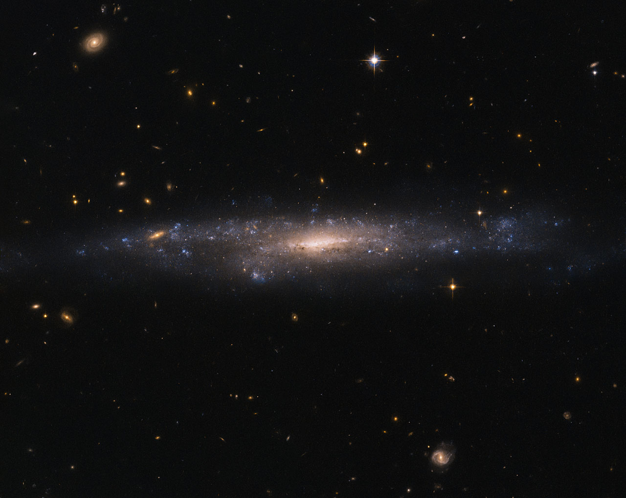 This striking NASA/ESA Hubble Space Telescope image captures the galaxy UGC 477, located just over 110 million light-years away in the constellation of Pisces (The Fish). UGC 477 is a low surface brightness (LSB) galaxy. First proposed in 1976 by Mike Disney, the existence of LSB galaxies was confirmed only in 1986 with the discovery of Malin 1. LSB galaxies like UGC 477 are more diffusely distributed than galaxies such as Andromeda and the Milky Way. With surface brightnesses up to 250 times fainter than the night sky, these galaxies can be incredibly difficult to detect. Most of the matter present in LSB galaxies is in the form of hydrogen gas, rather than stars. Unlike the bulges of normal spiral galaxies, the centres of LSB galaxies do not contain large numbers of stars. Astronomers suspect that this is because LSB galaxies are mainly found in regions devoid of other galaxies, and have therefore experienced fewer galactic interactions and mergers capable of triggering high rates of star formation. LSB galaxies such as UGC 477 instead appear to be dominated by dark matter, making them excellent objects to study to further our understanding of this elusive substance. However, due to an underrepresentation in galactic surveys — caused by their characteristic low brightness — their importance has only been realised relatively recently.